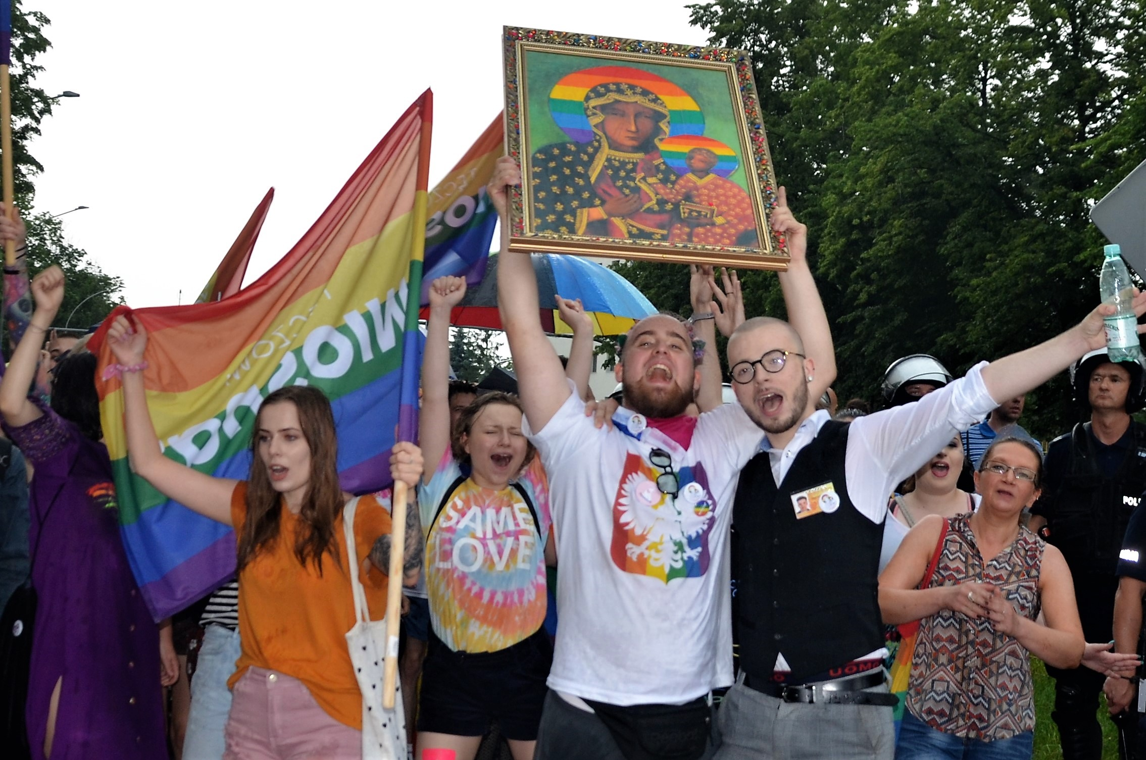 CzestochowaPride-Parade